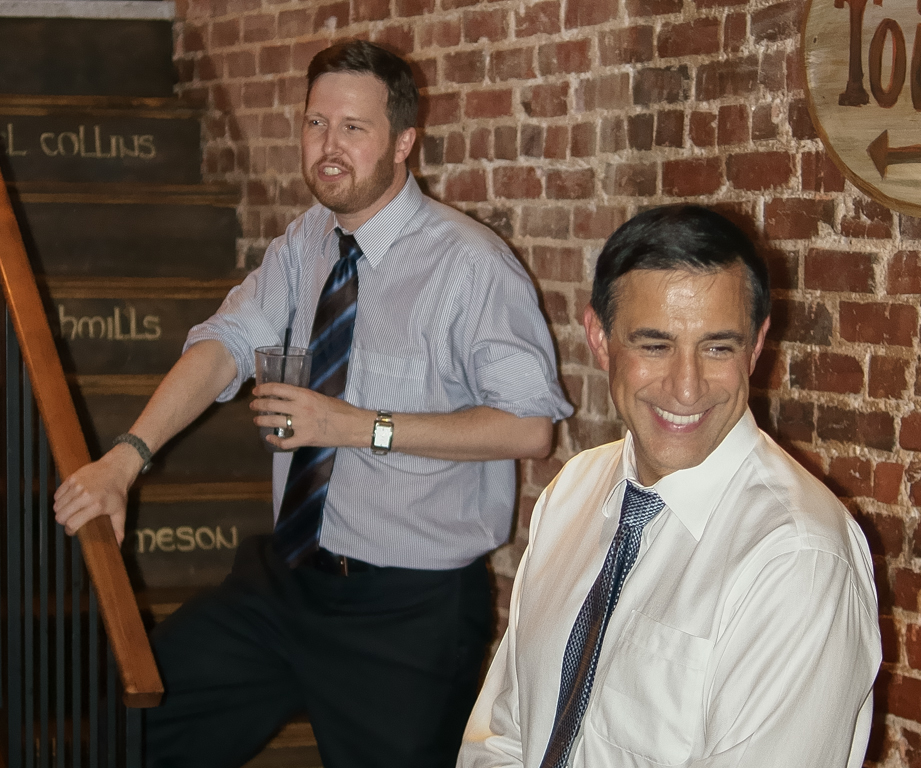 Sascha Meinrath stands with Darrell Issa after a brief speech about the launch of the Internet Defense League.